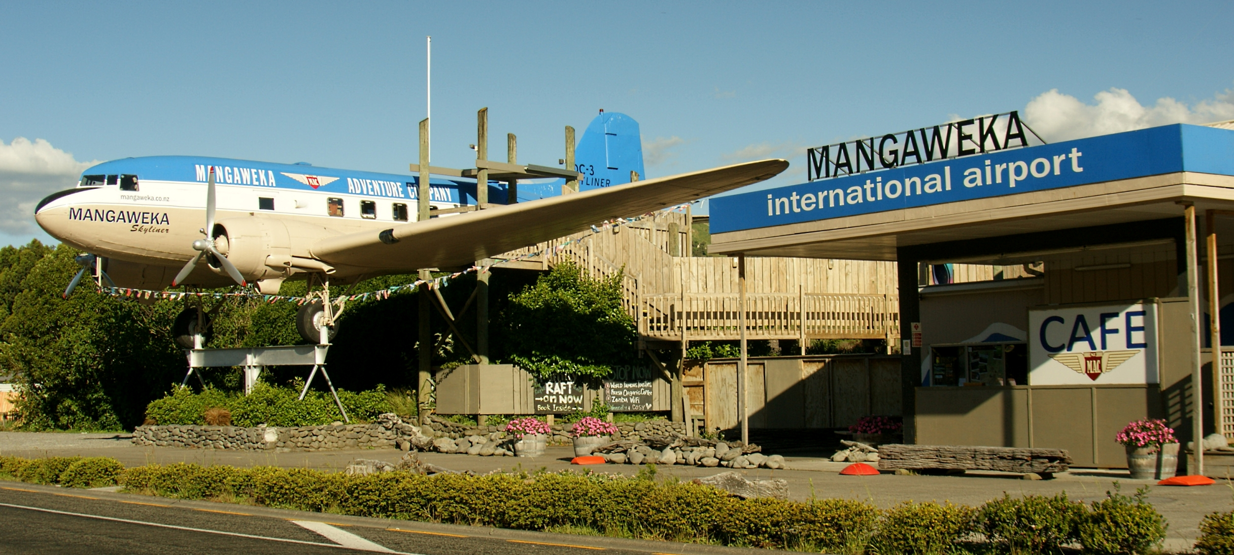 This location in Mangaweka used to be a Europa petrol station...then the Dakota DC3 arrived in 1985. It then became an adventure sport office with cafe in the plane. The DC3 became an advertising billboard for Cookie Time biscuits. Now it's returned to something closer to its original look.